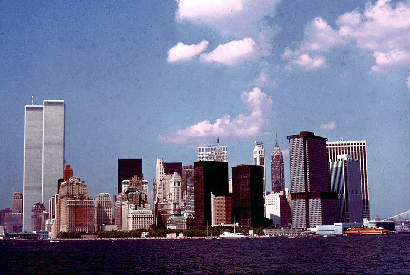 Manhattan, July 1976